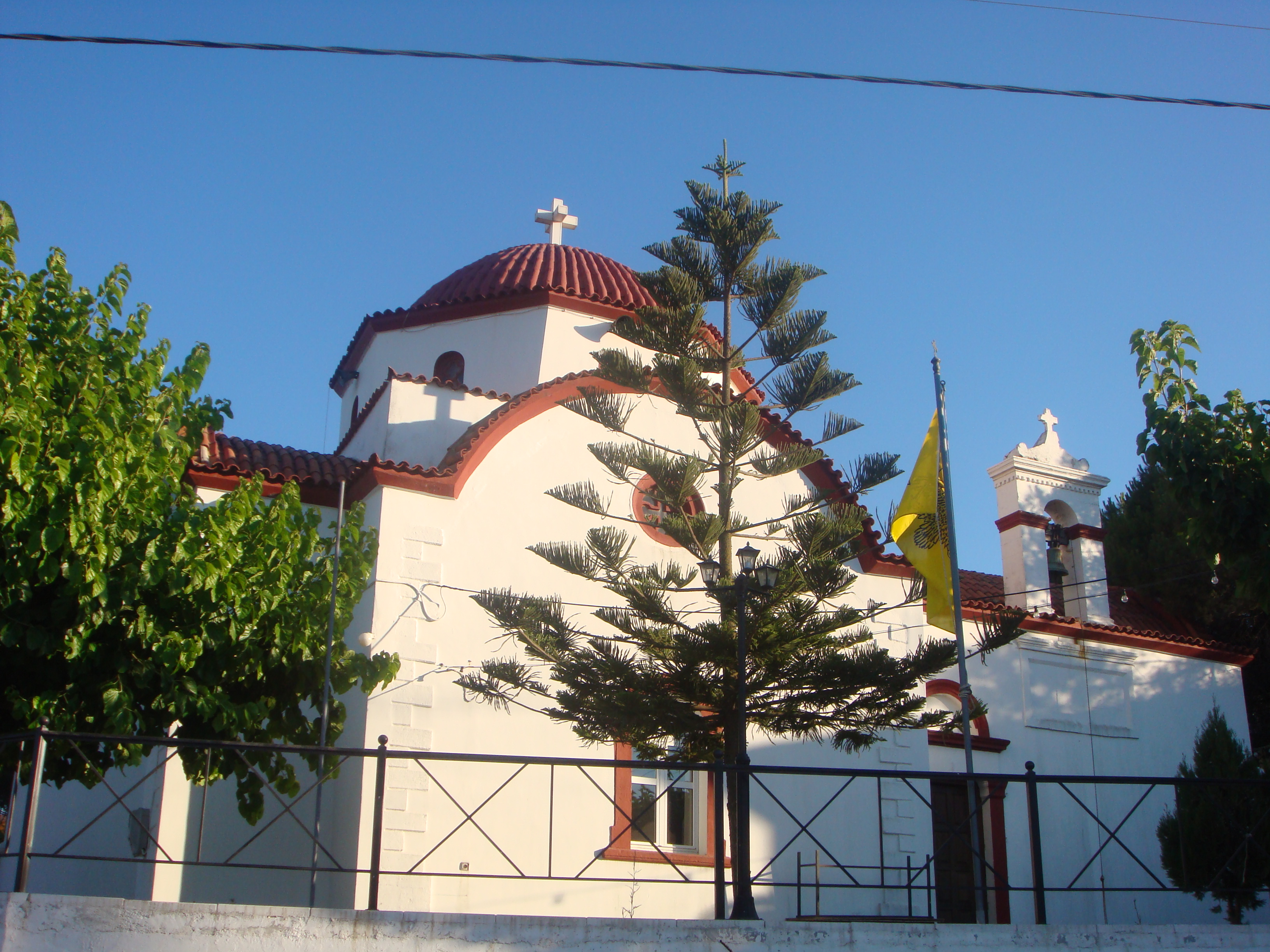 A view from church of Michael Archangelos, in Patsideros (pronounced: Pachitheros) Iraklion prefecture.